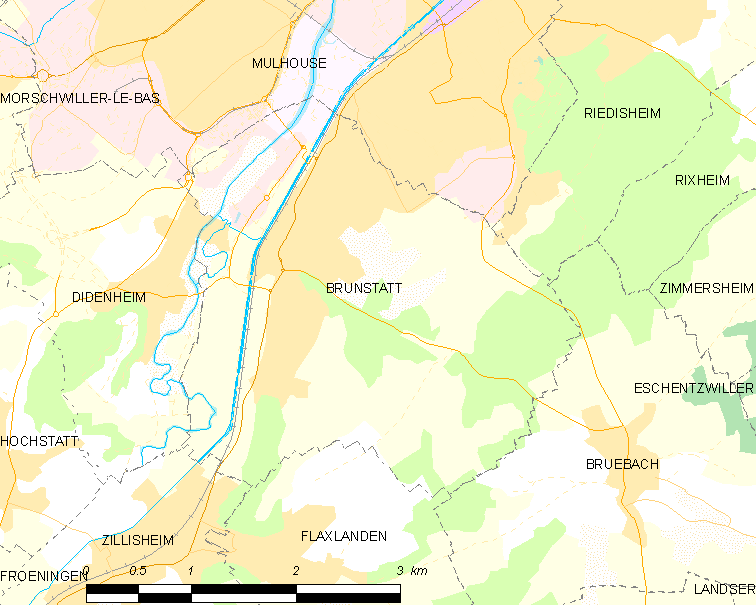 Map of French municipality